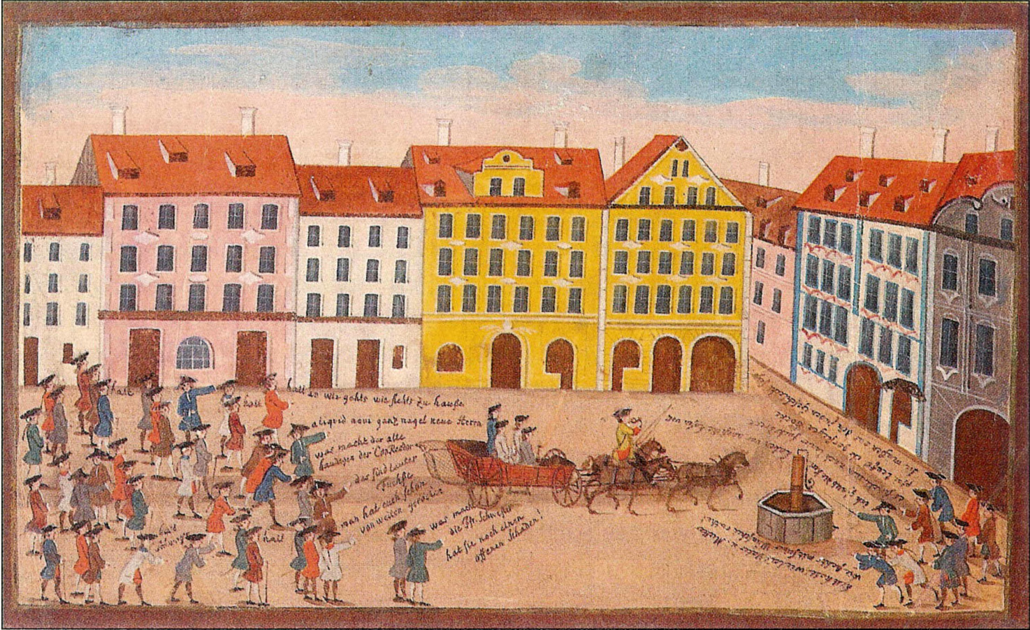 Fuchsenankunft auf dem Marktplatz zu Jena, um 1770, studentisches Stammbuch im Institut für Hochschulkunde an der Universität Würzburg Arrival of the freshmen at Jena University in about 1770, students’ “Stammbuch” in the Institute of University History at Würzburg University